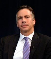 Jim Sciutto, the chief national security correspondent for CNN, pictured while US Secretary of Defense Chuck Hagel (not shown) takes a question following a live interview about defense issues at the college in Newport, R.I., Sept. 3, 2014.